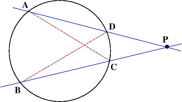 Power of point outside a circle